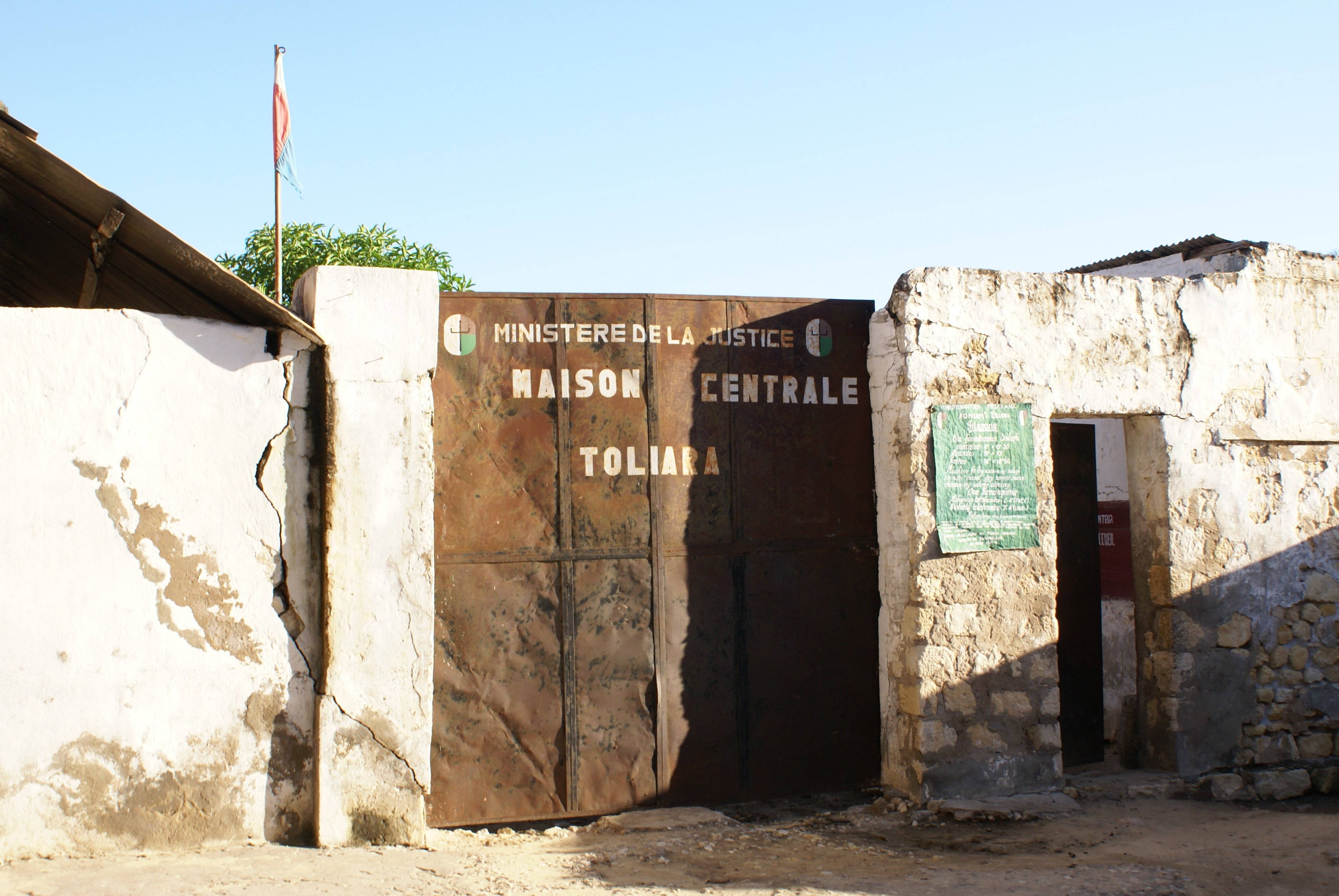 Entrance of the jail of Toliara (Madagascar)